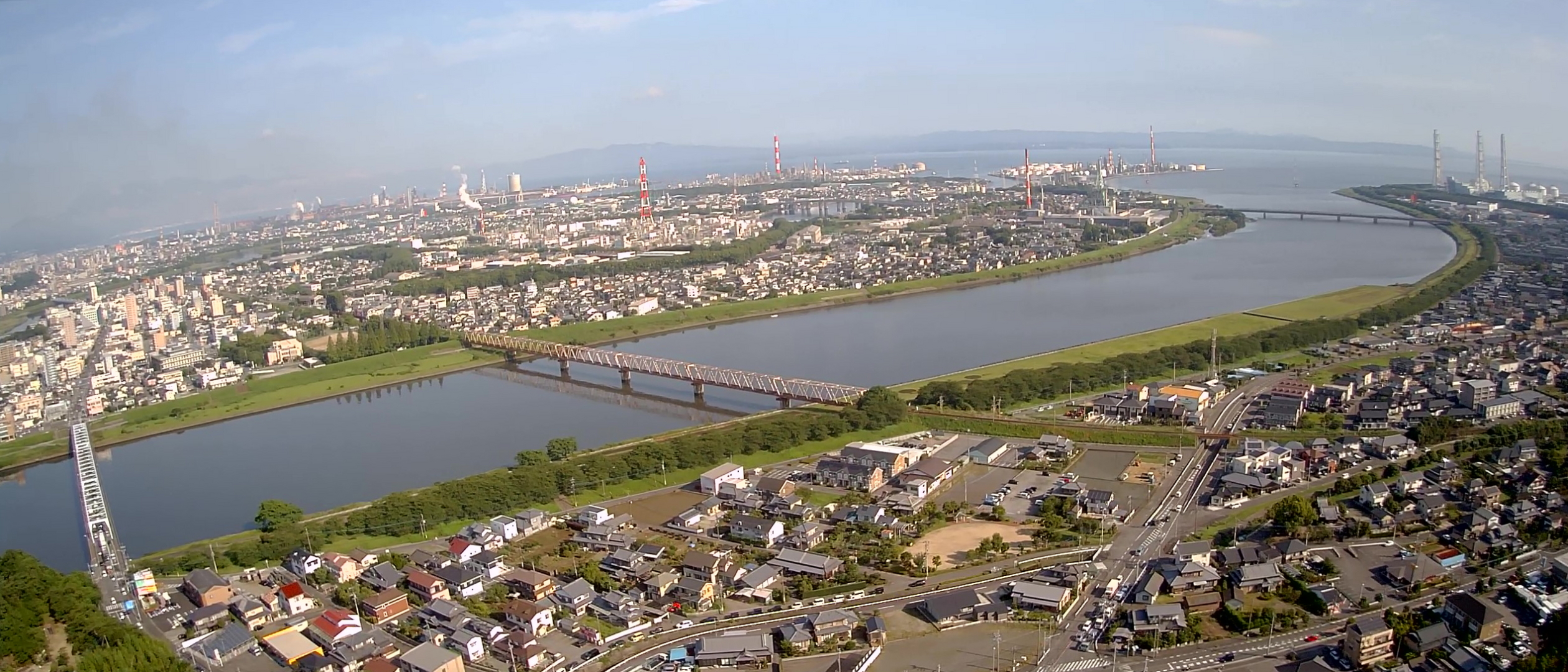 Ono River in Oita City